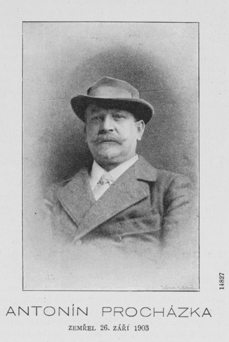 Portrait of Antonín Procházka (1849-1903), Czech sculptor